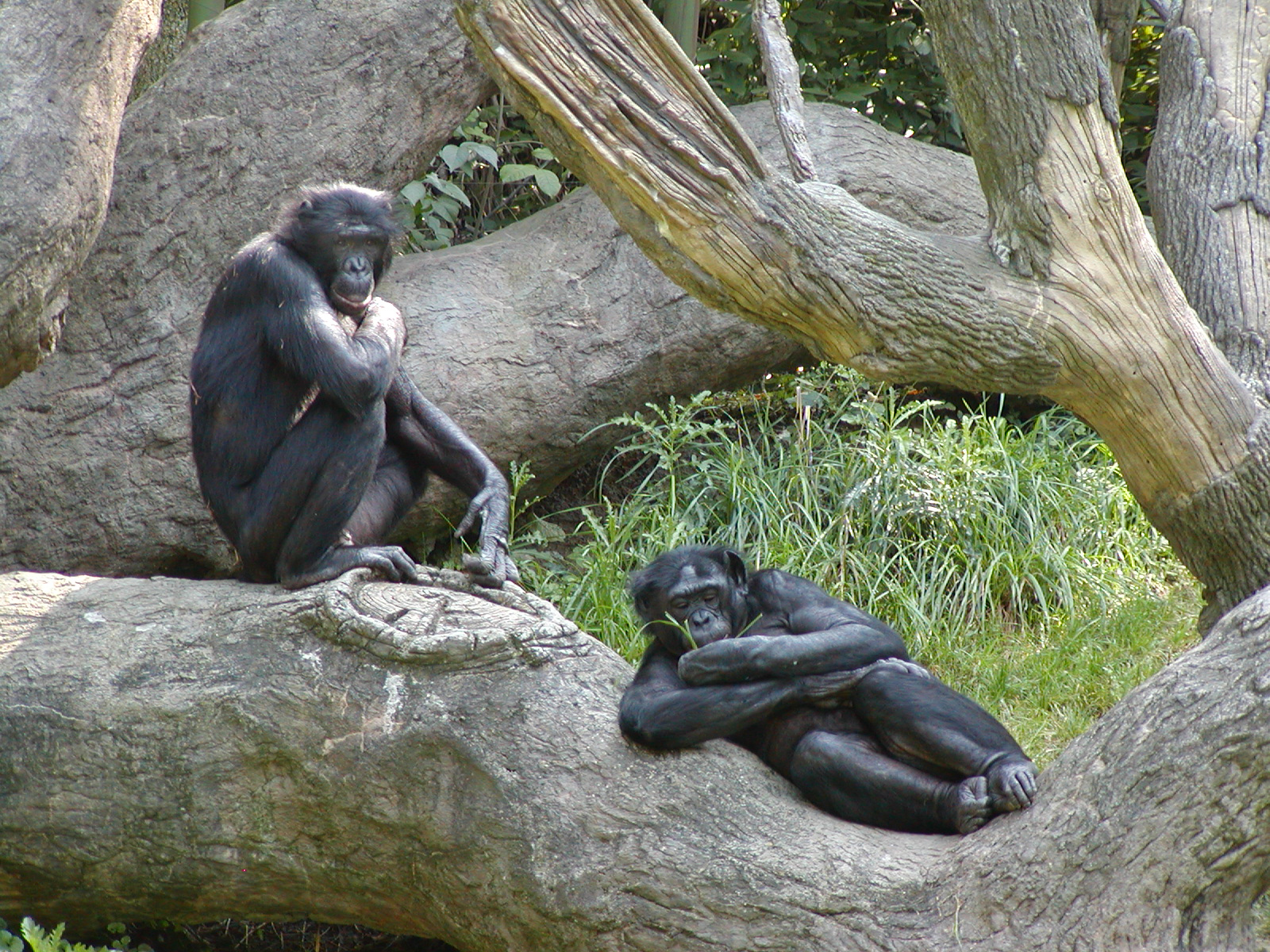 Bonobos at the Cincinnati Zoo.